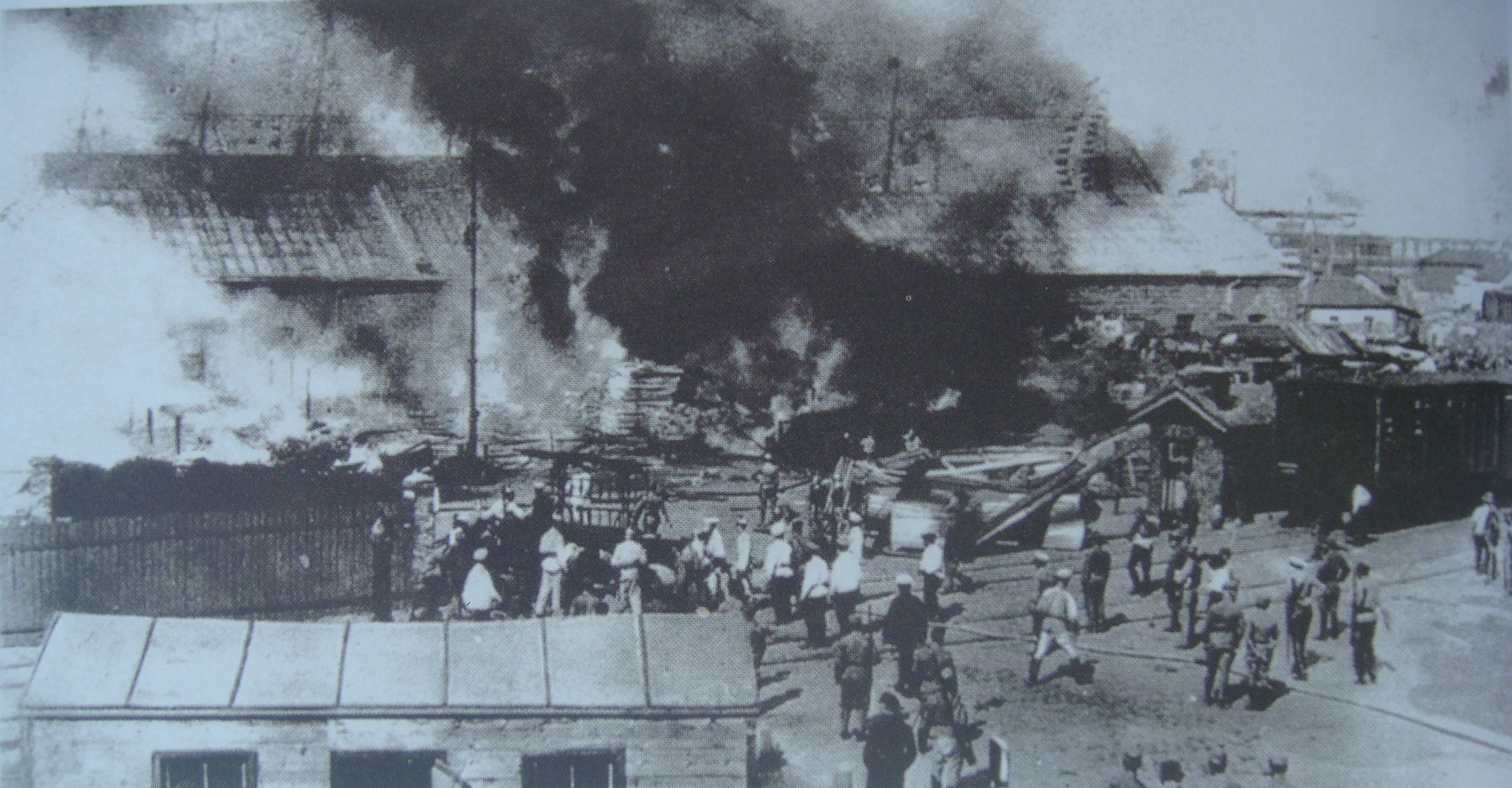 Russian Revolution of 1905. Battleship "Knyaz Potemkin" mutiny. Photo showes Odessa port burned by mobs during days of unrest.